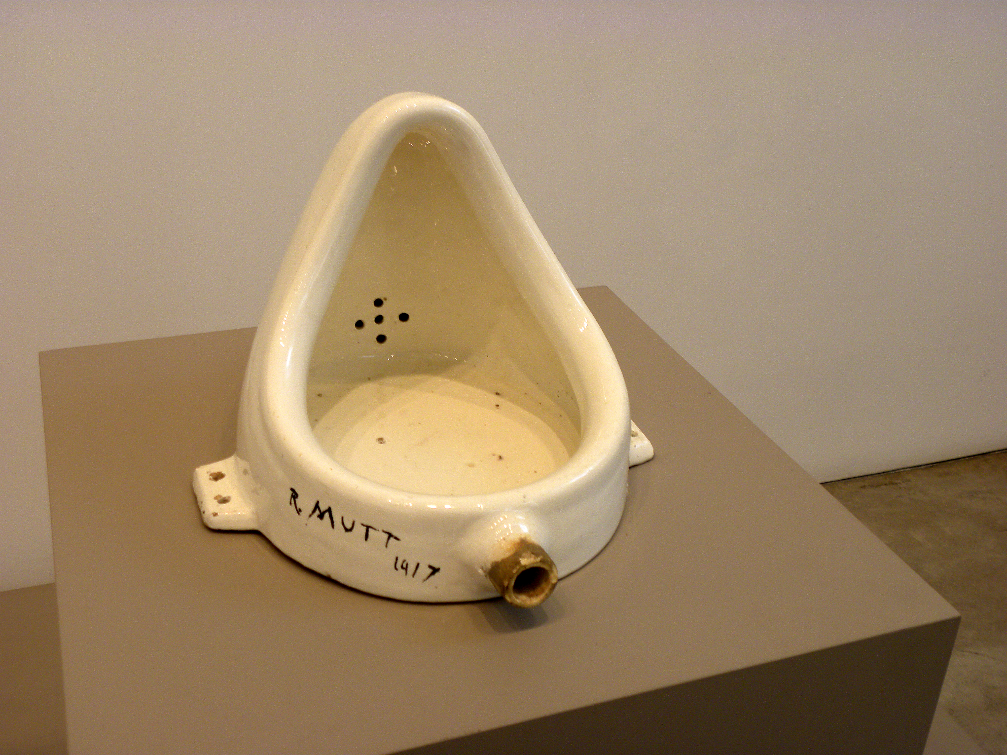 Marcel Duchamp's "Fountain" (It is actually a replica of the 1917 original)